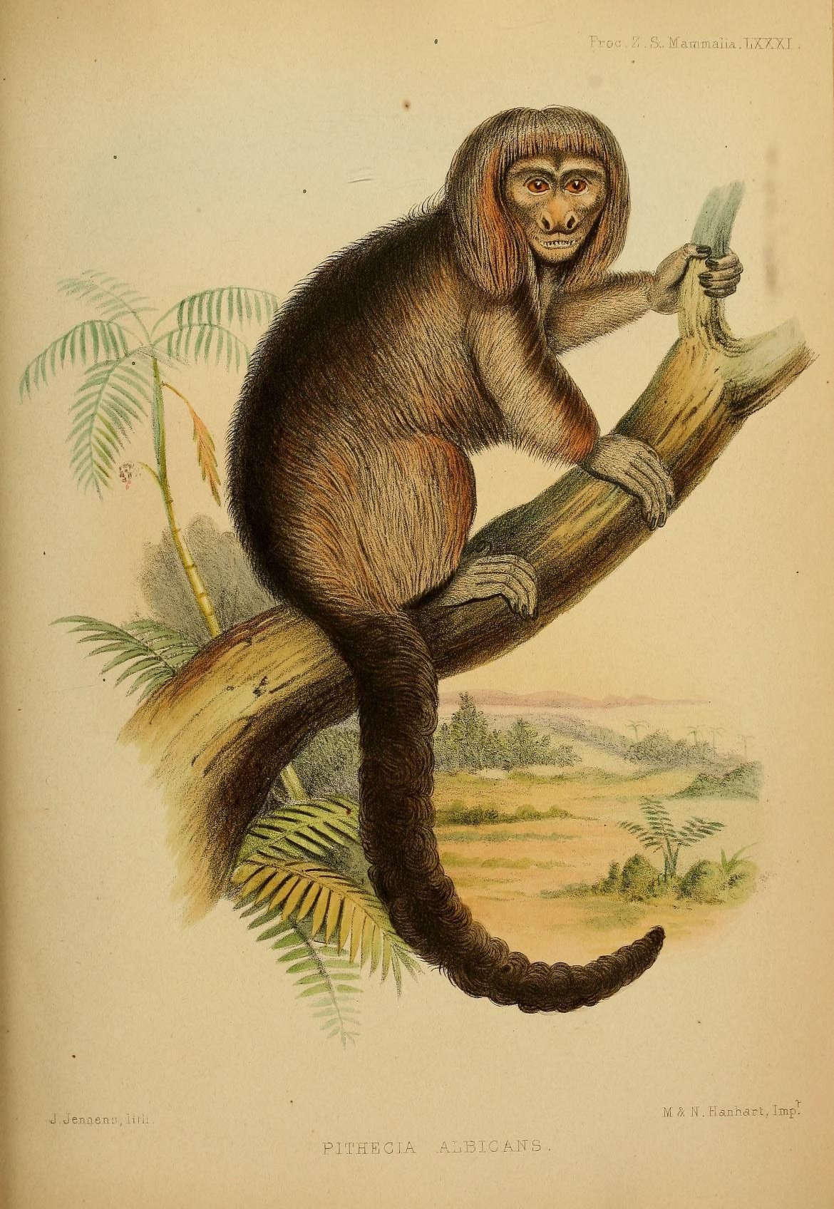 m .1 ■ ■■ ■ s -art, Imp. Pithecia albicans